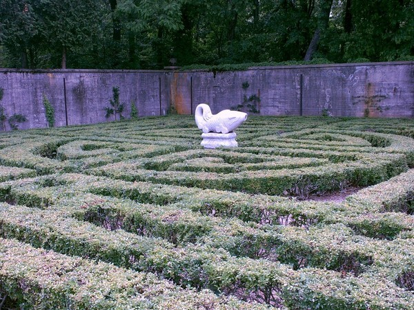 This is one half of the Chinese Maze Garden. The shrubs are trimmed to grow in a manner suggesting a maze.